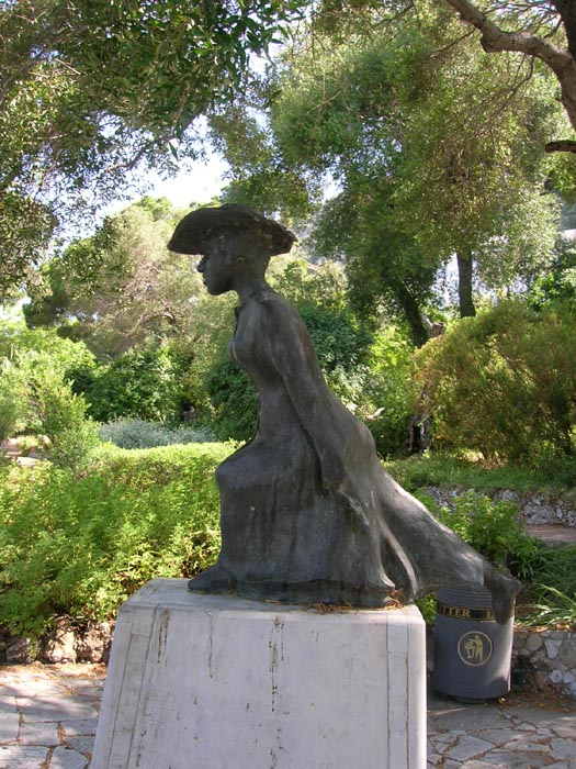 Most famous fictitious Gibraltarian, Molly Bloom from Ulysses by James Joyce. This running figure was commissioned from Jon Searle to celebrate the bicentenary of the Gibraltar Chronicle in 2001